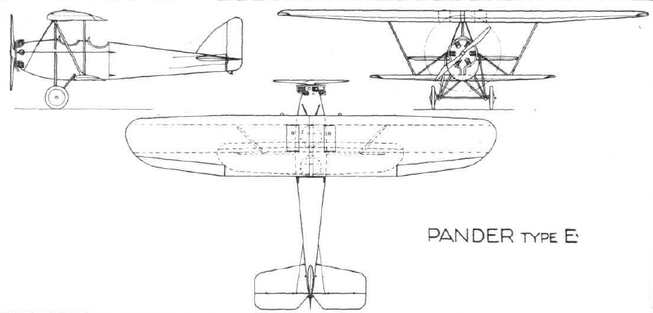 Pander E - 3 view